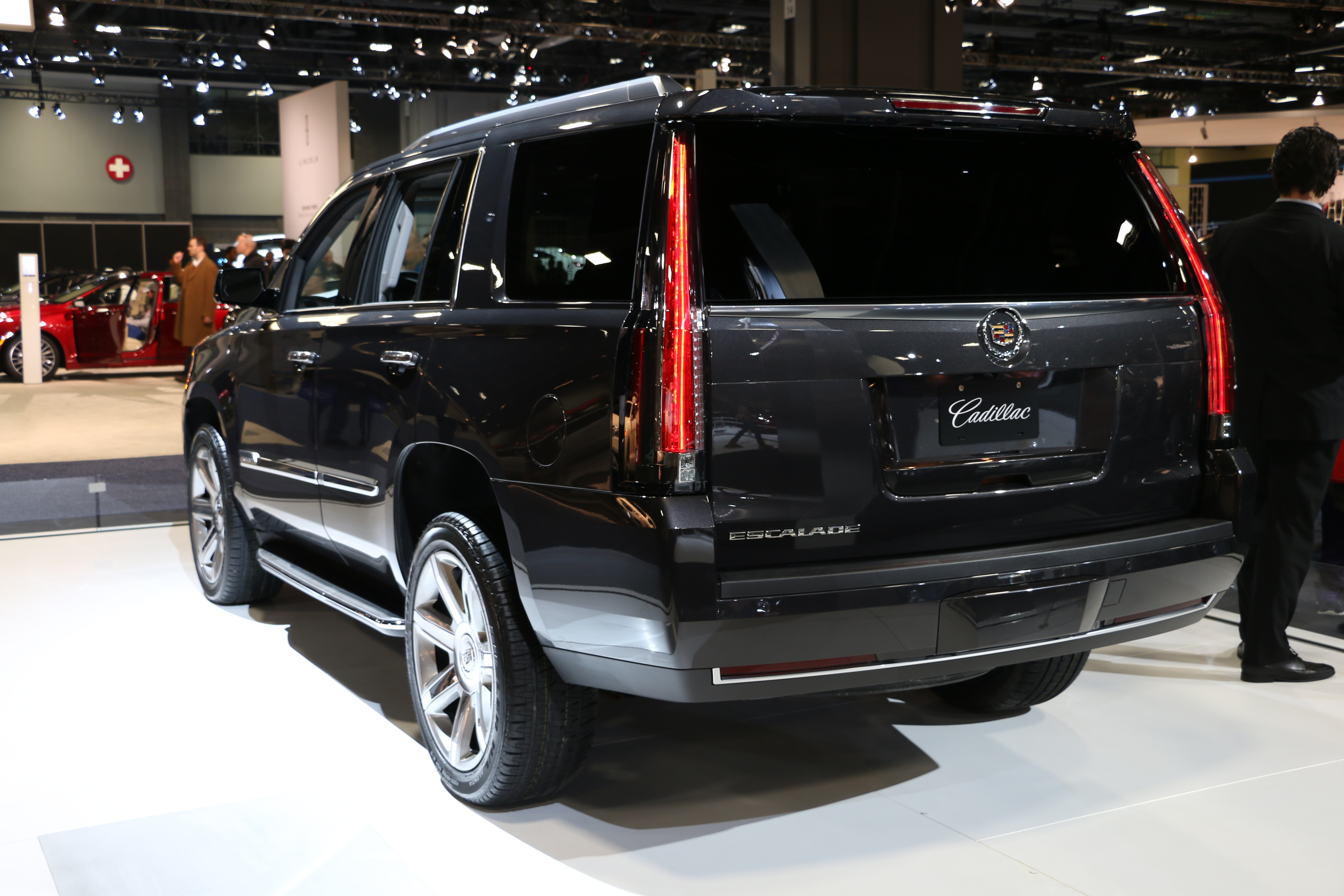 2014 Washington Auto Show